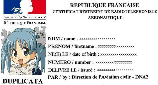 Aeronautical Certificate Airband VHF HF MF